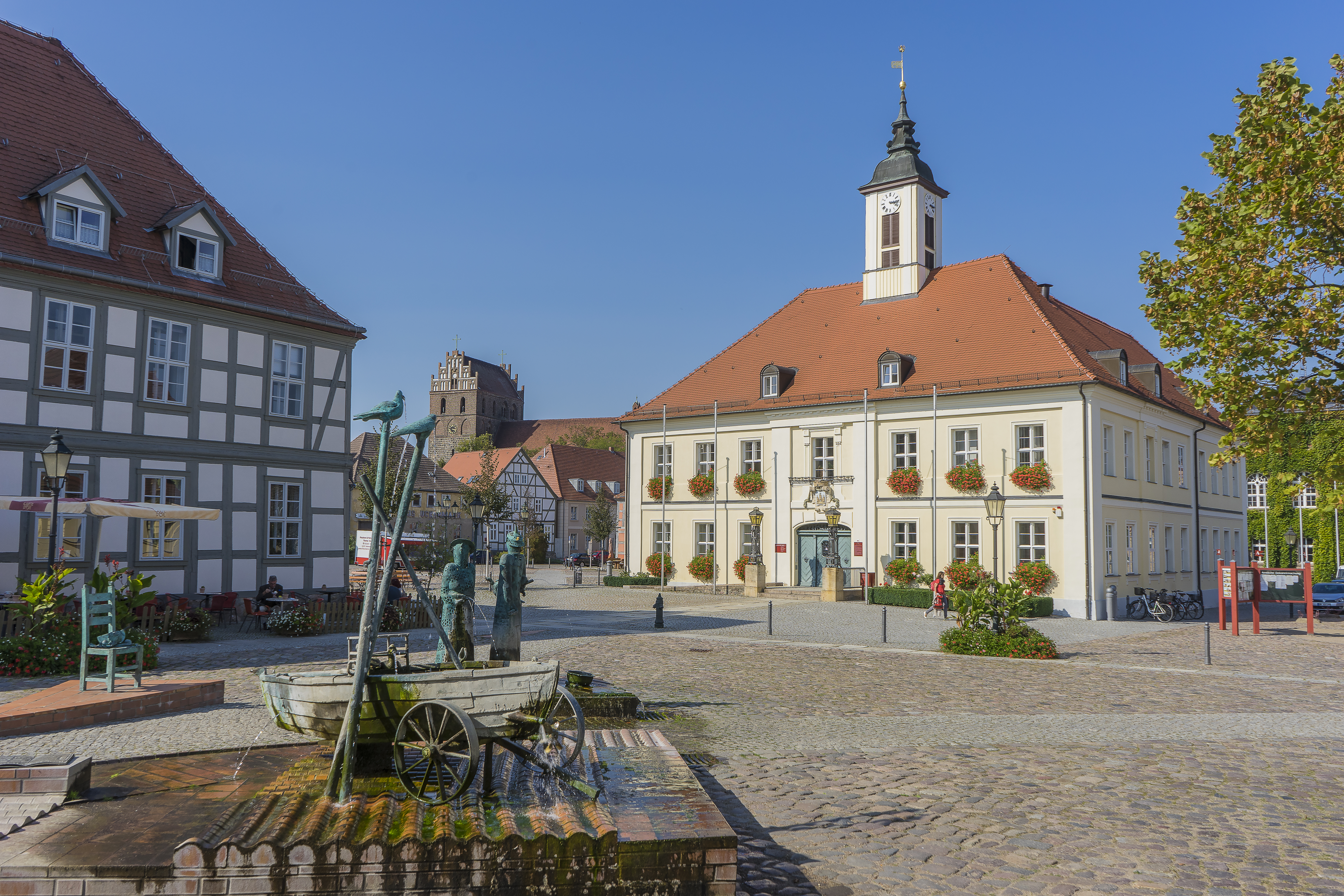 Townhall Angermuende at Marketplace